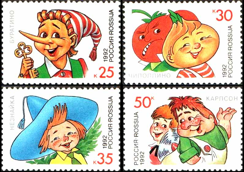 Stamps of Russia.Characters of children books.